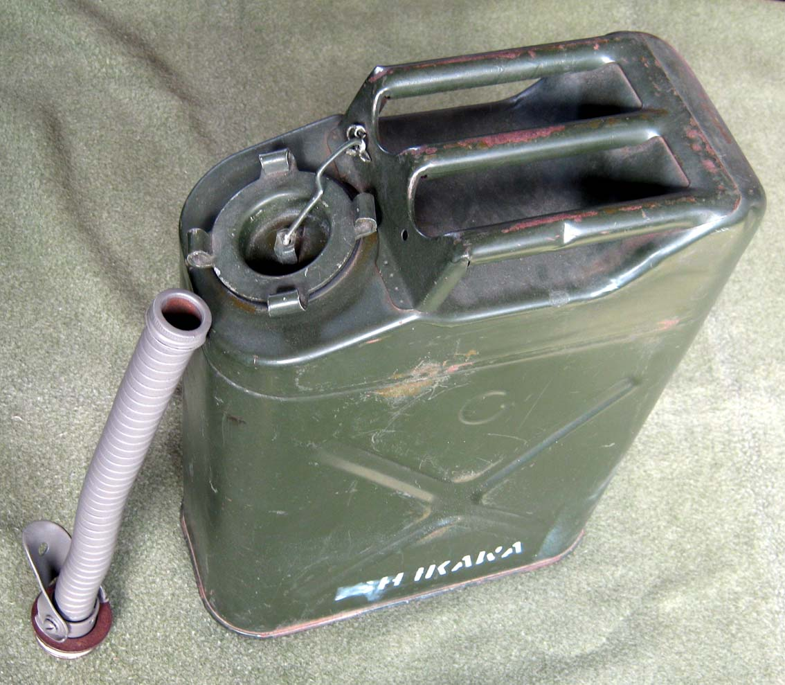 US type jerry can (Fuel can) manufactured in 1952. name of manufacture "G.P. & F CO". capacity 5 gallon. 20 gauge steel. Nozzle with flexible pipe.